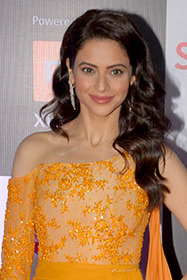 Aamna Sharif graces the Star Screen Awards 2018